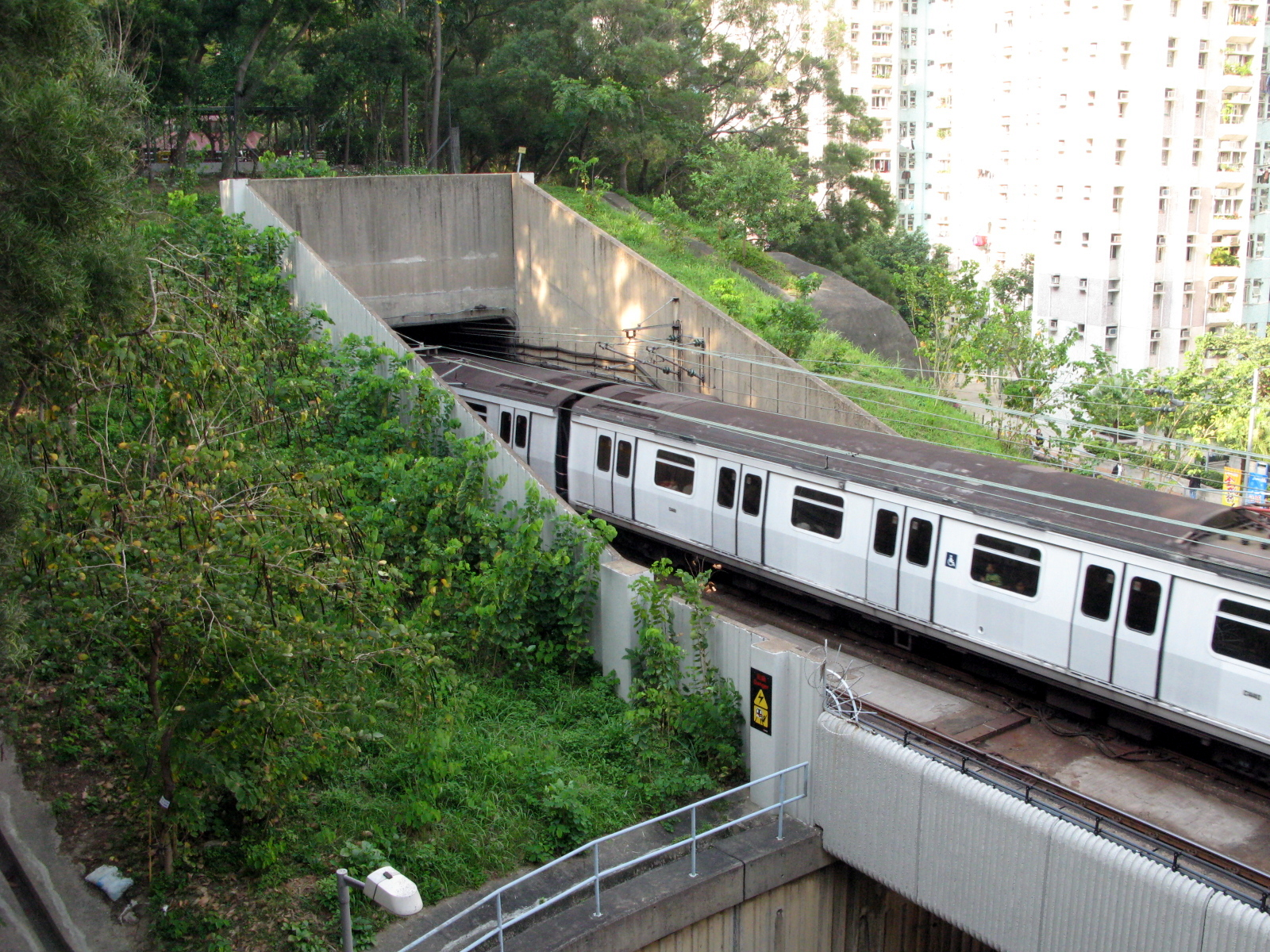 MTR TWL Track Near Kwai Hing Station